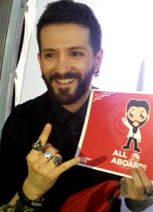 Albanian rock singer Eugent Bushpepa on May 2018.